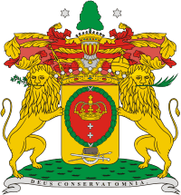 Coat of Arms of Sheremetiev family